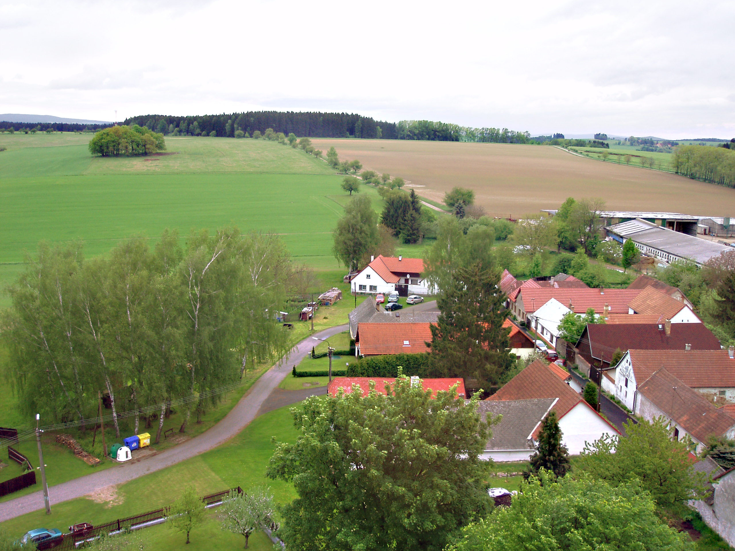 Kámen, Pelhřimov District, Czechia.